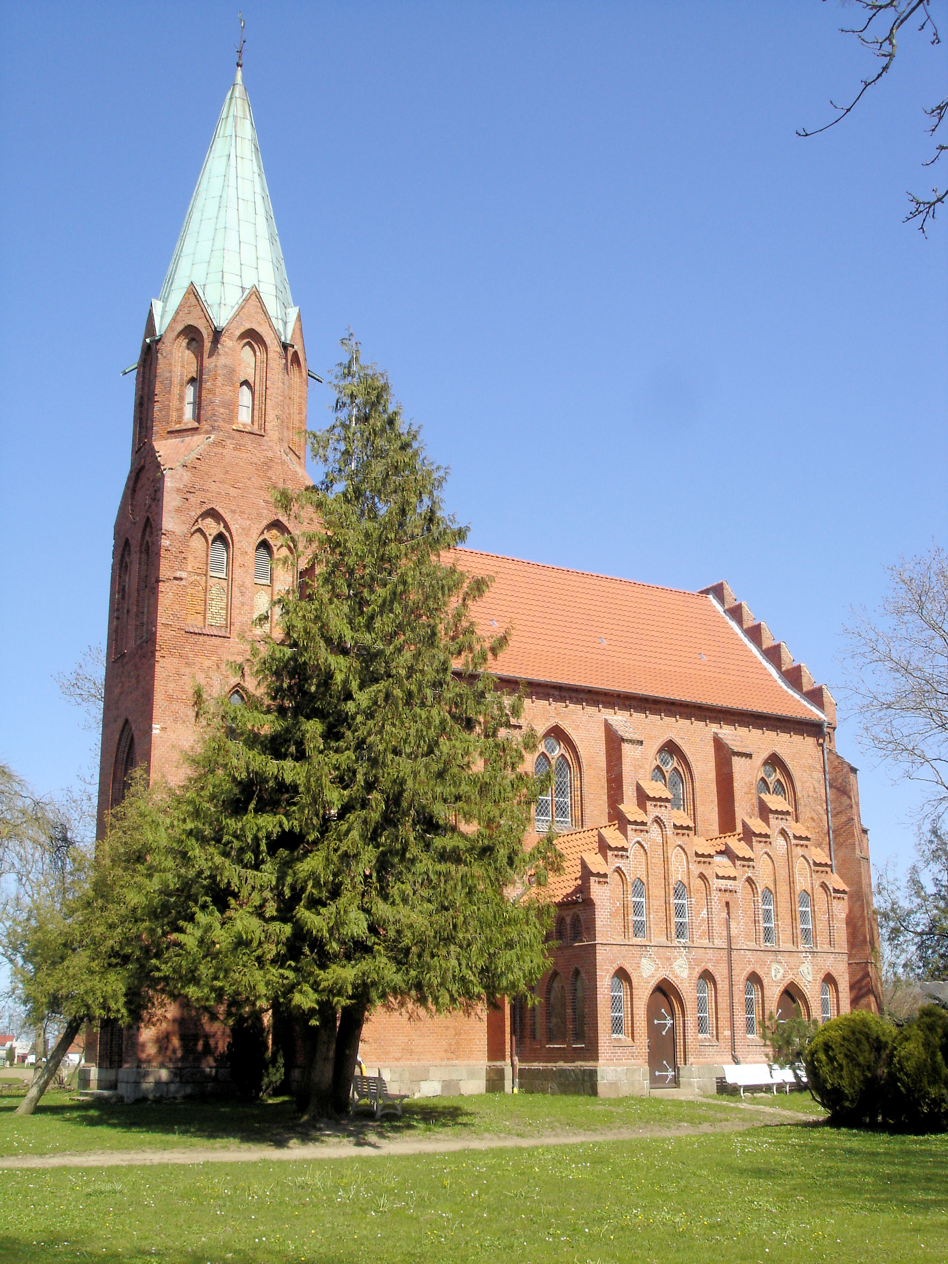 Church Pantlitz, Mecklenburg, Germany